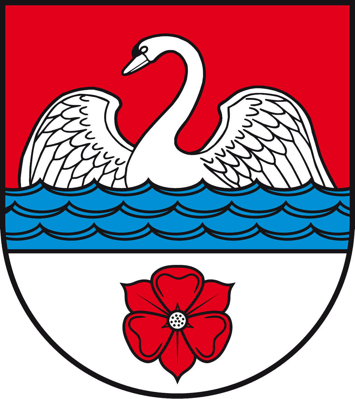 Coat of arms of Angern, Part of Angern